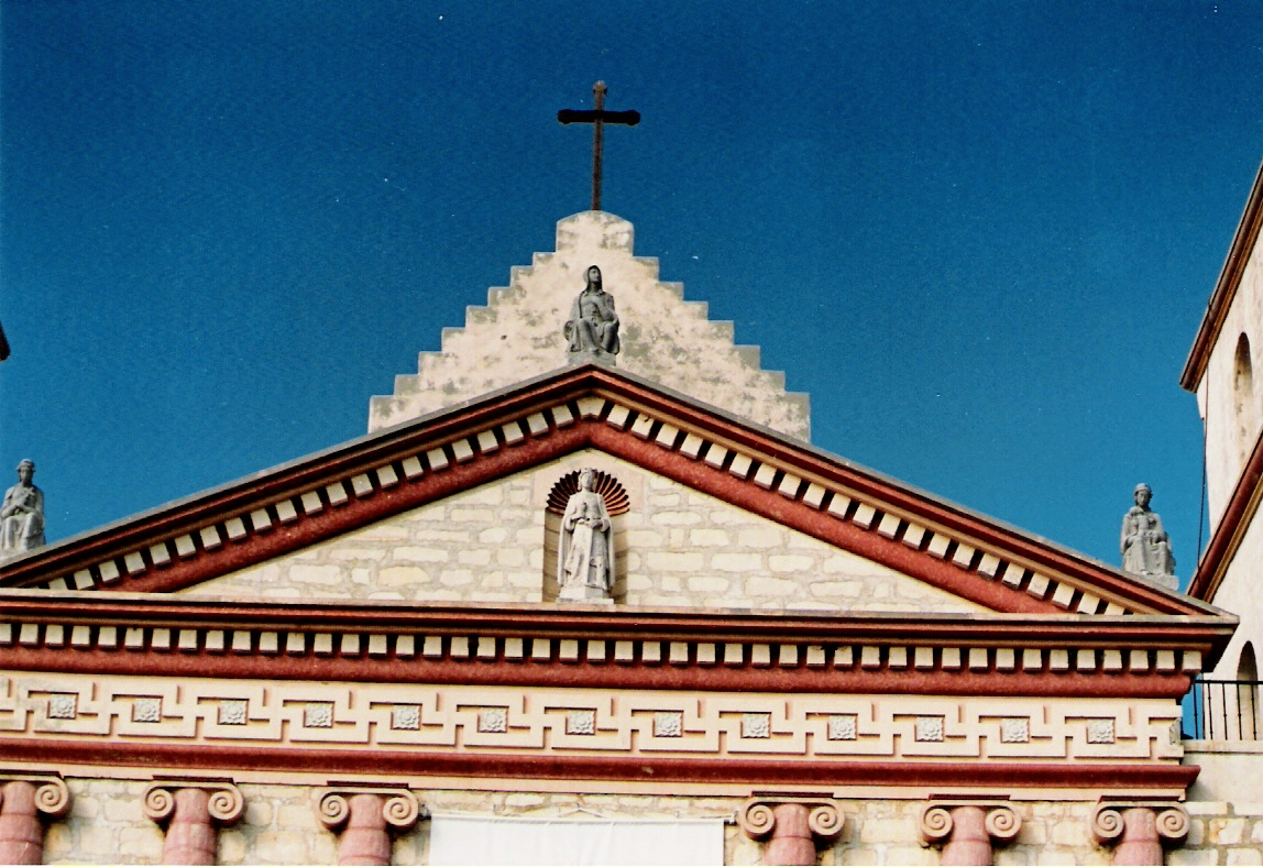 The ornamental frieze above the chapel at Mission Santa Barbara. Photograph by Robert A. Estremo, copyright 1986.